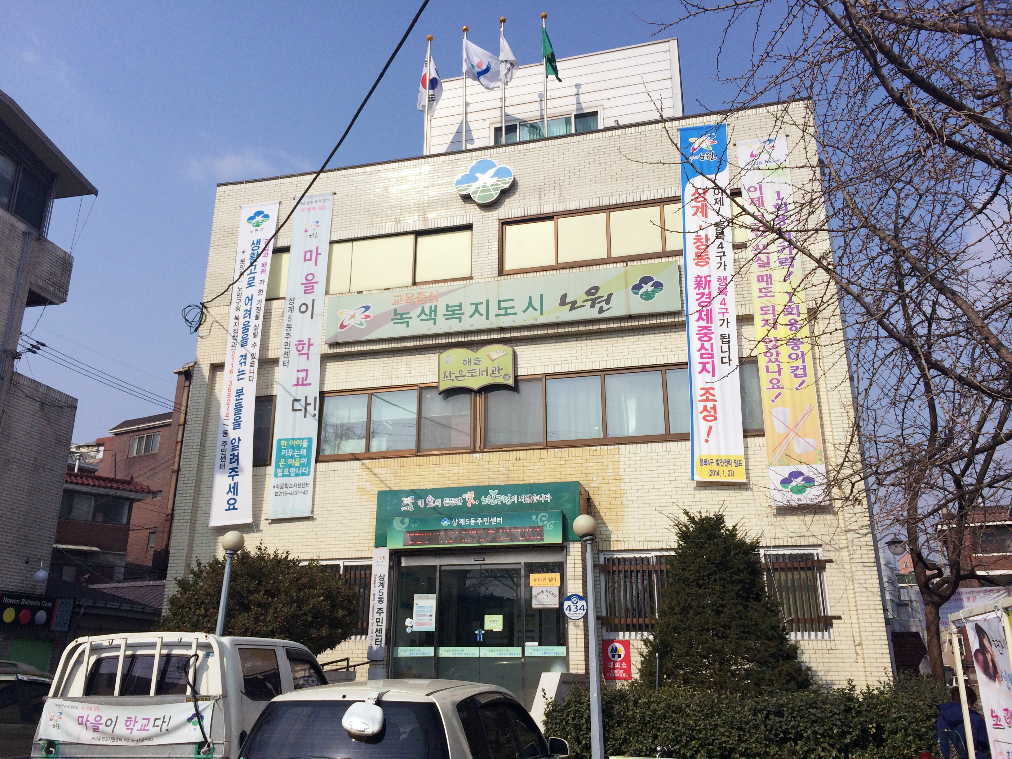 Sanggye 5-dong Comunity Service Center (Nowon-gu)